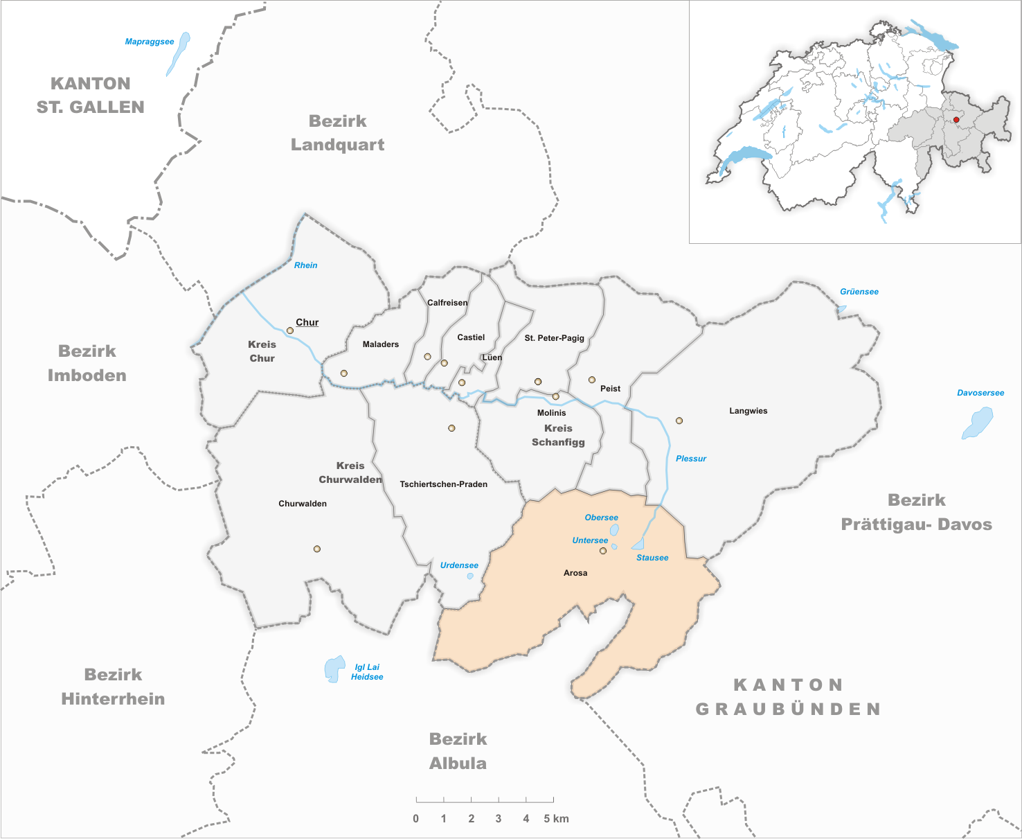 Municipality Arosa